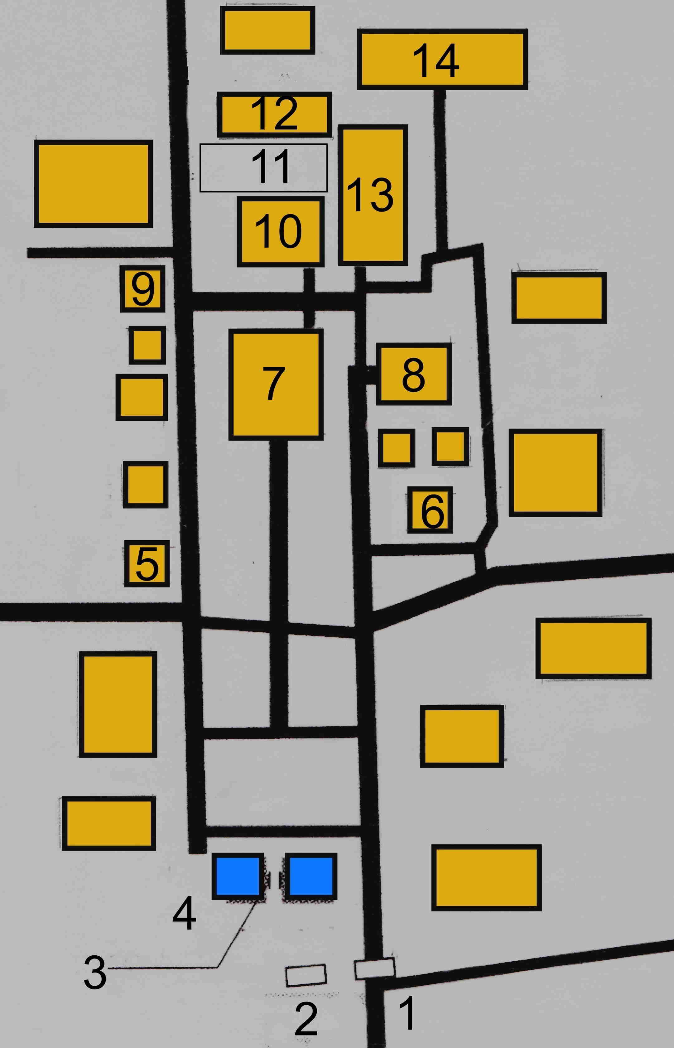 Layout of Shokokuji compound